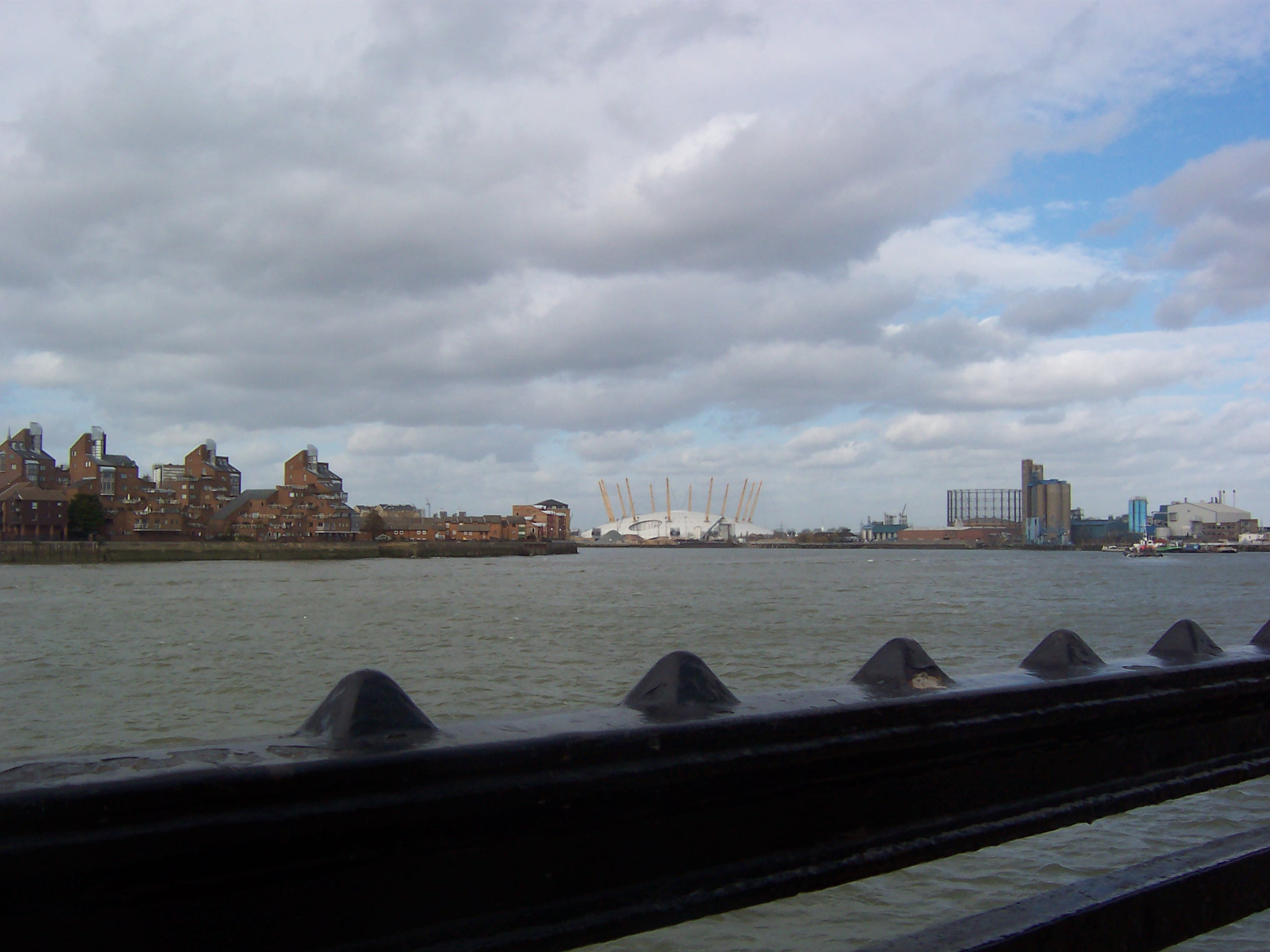 The Millenium Dome from The Docks in Greenwich.